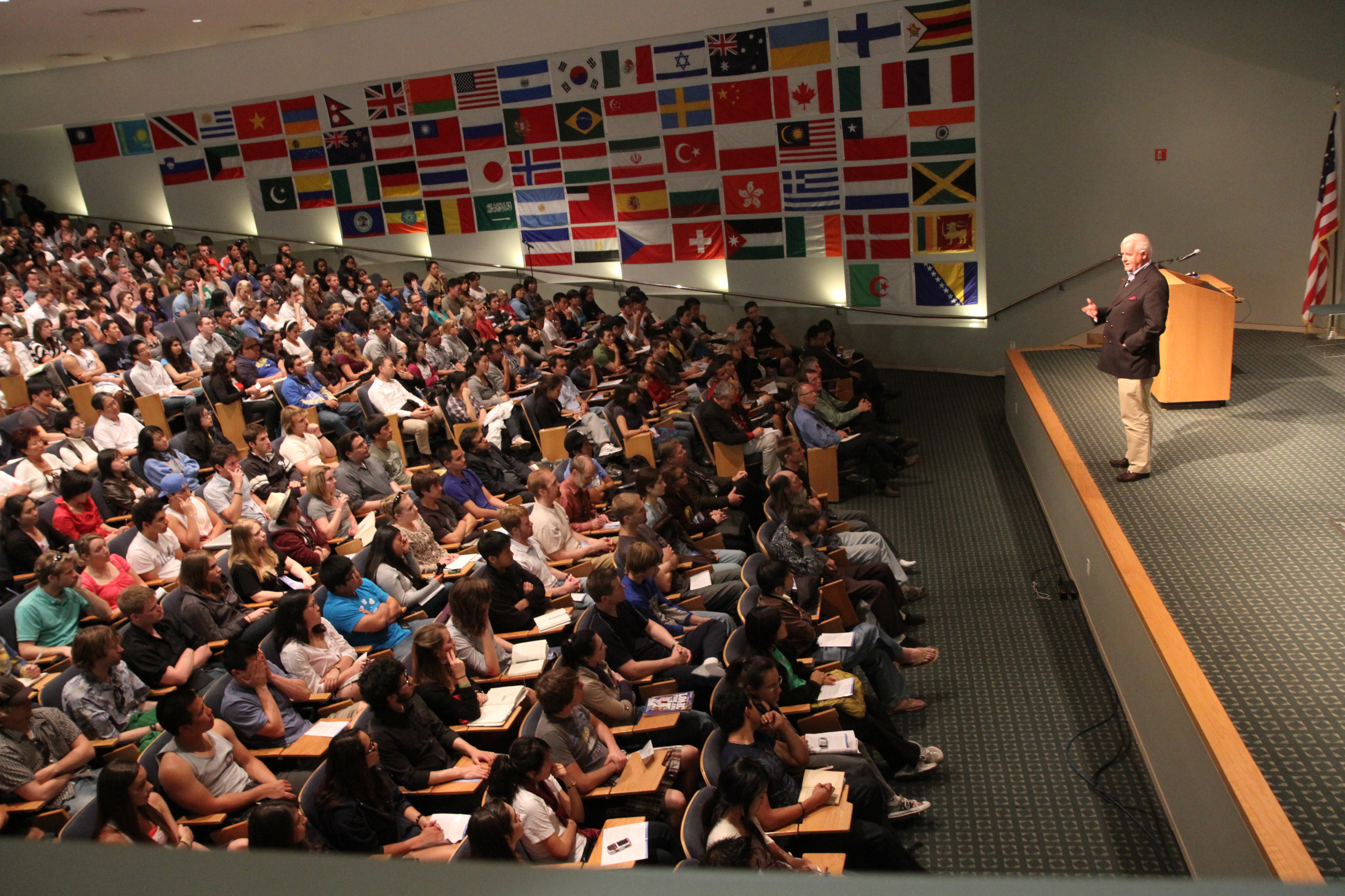 Os Guinness - The Journey, A Thinking Person's Quest for Meaning